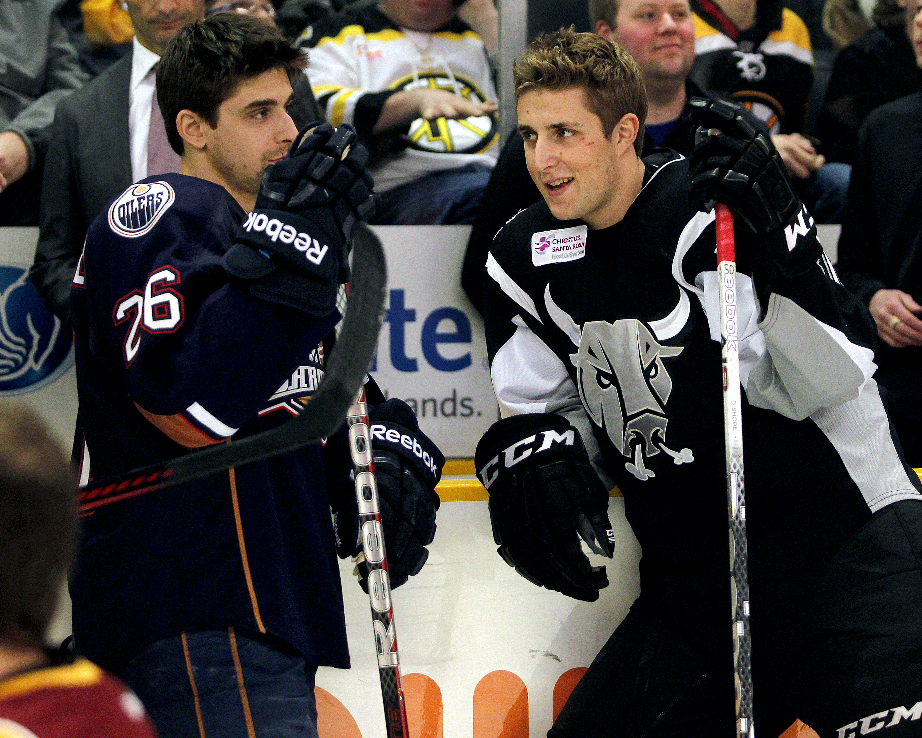 Arcobello_Shore American Hockey League (AHL). 2013 All-Star Skills Competition. Taken on January 27, 2013.